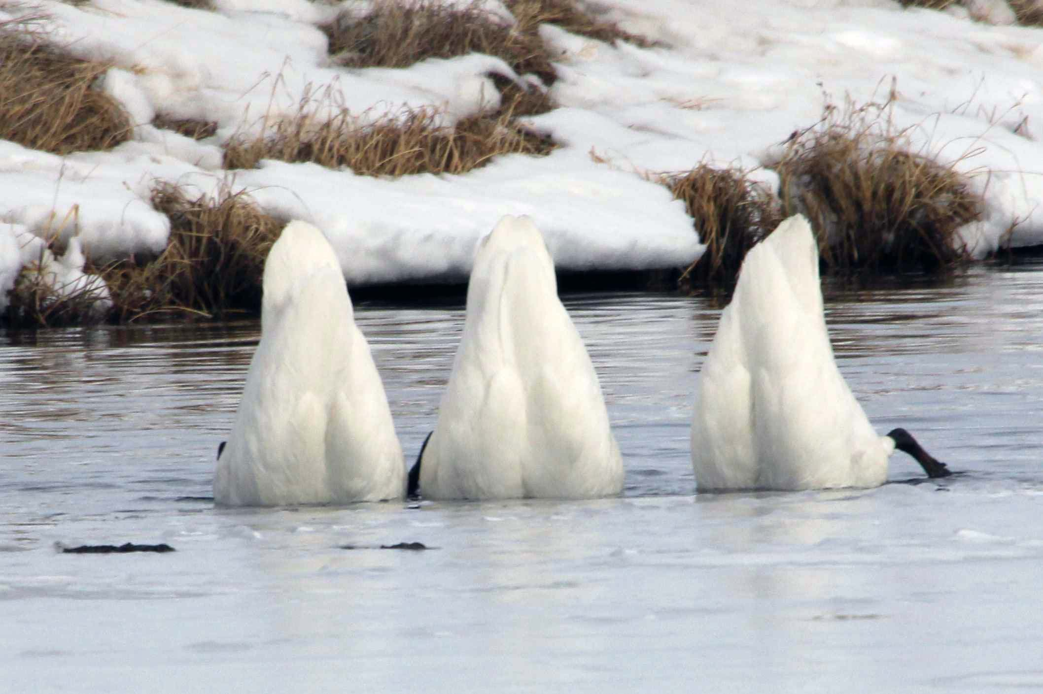 Three trumpeter swans present a symmetrical image as they duck their heads into Flat Creek on the National Elk Refuge. Credit: USFWS / Ann Hough, National Elk Refuge volunteer